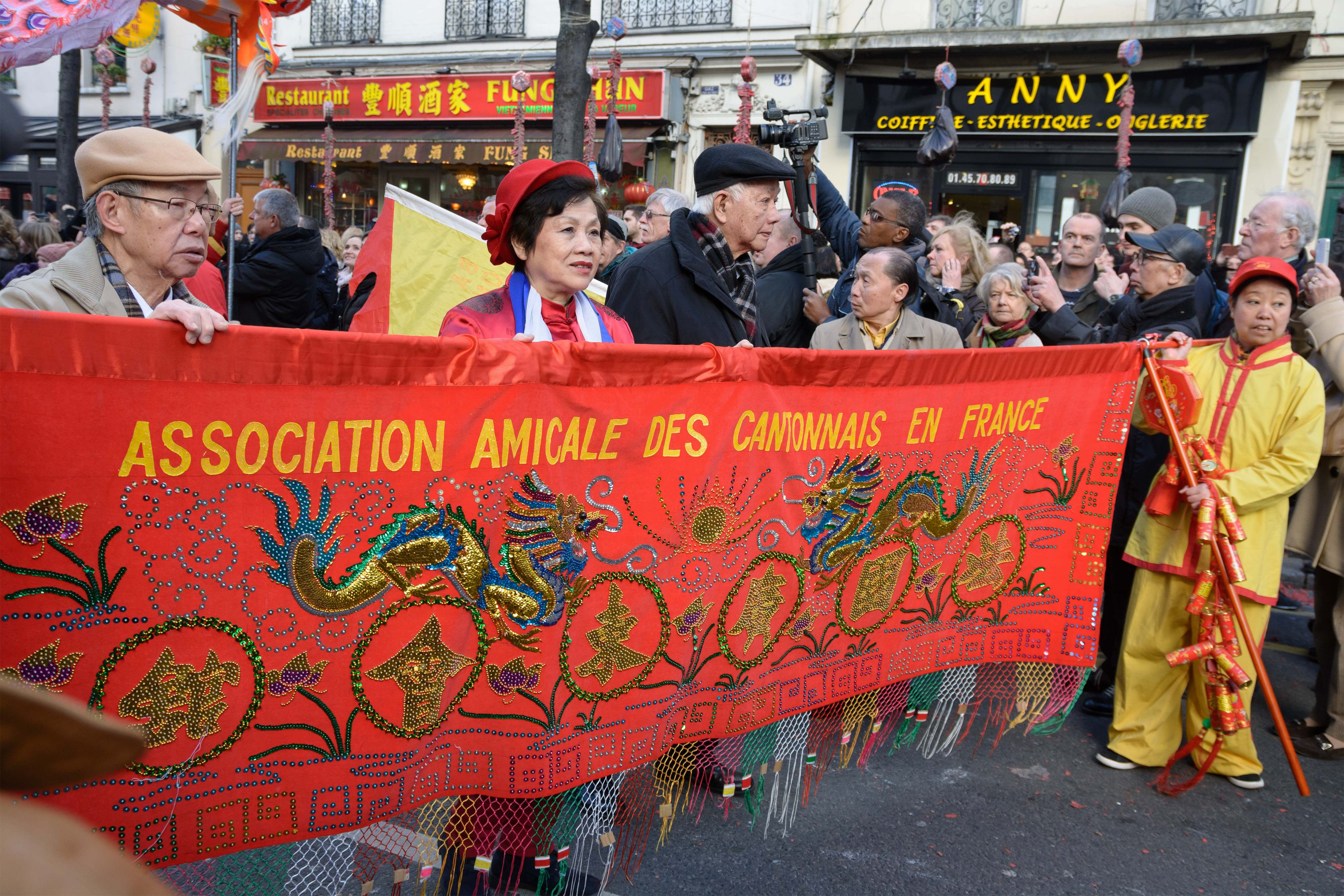 Chinese New Year 2015 in the 13th arrondissement of Paris